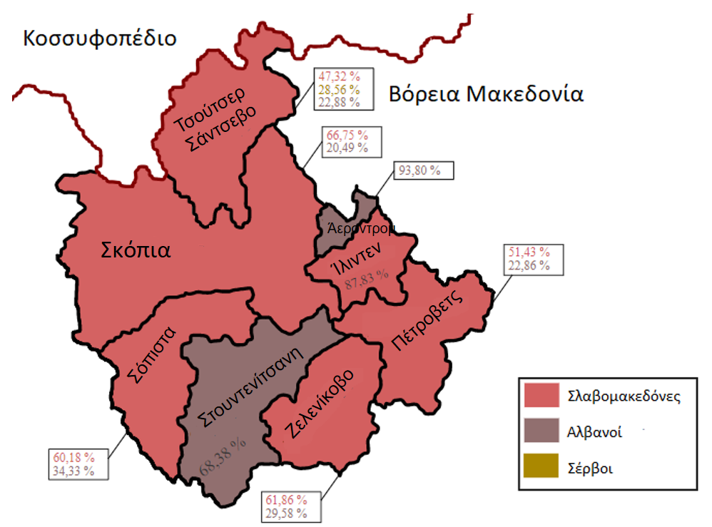 Political map of the majority ethnic groups in the Skopje Statistical Region of North Macedonia in Greek language.